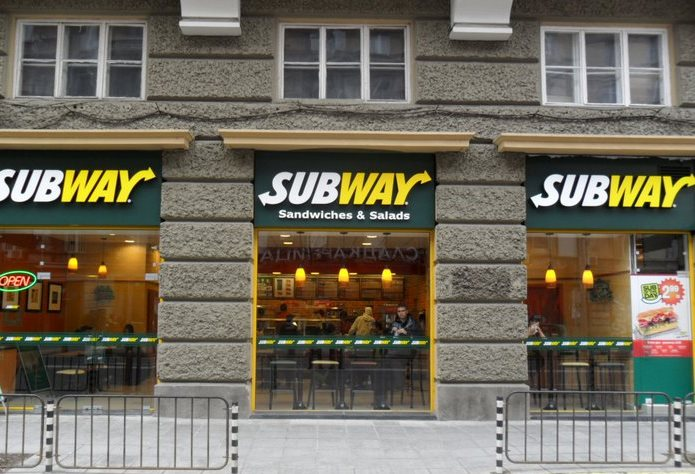 Subway Rakovska, Sofia